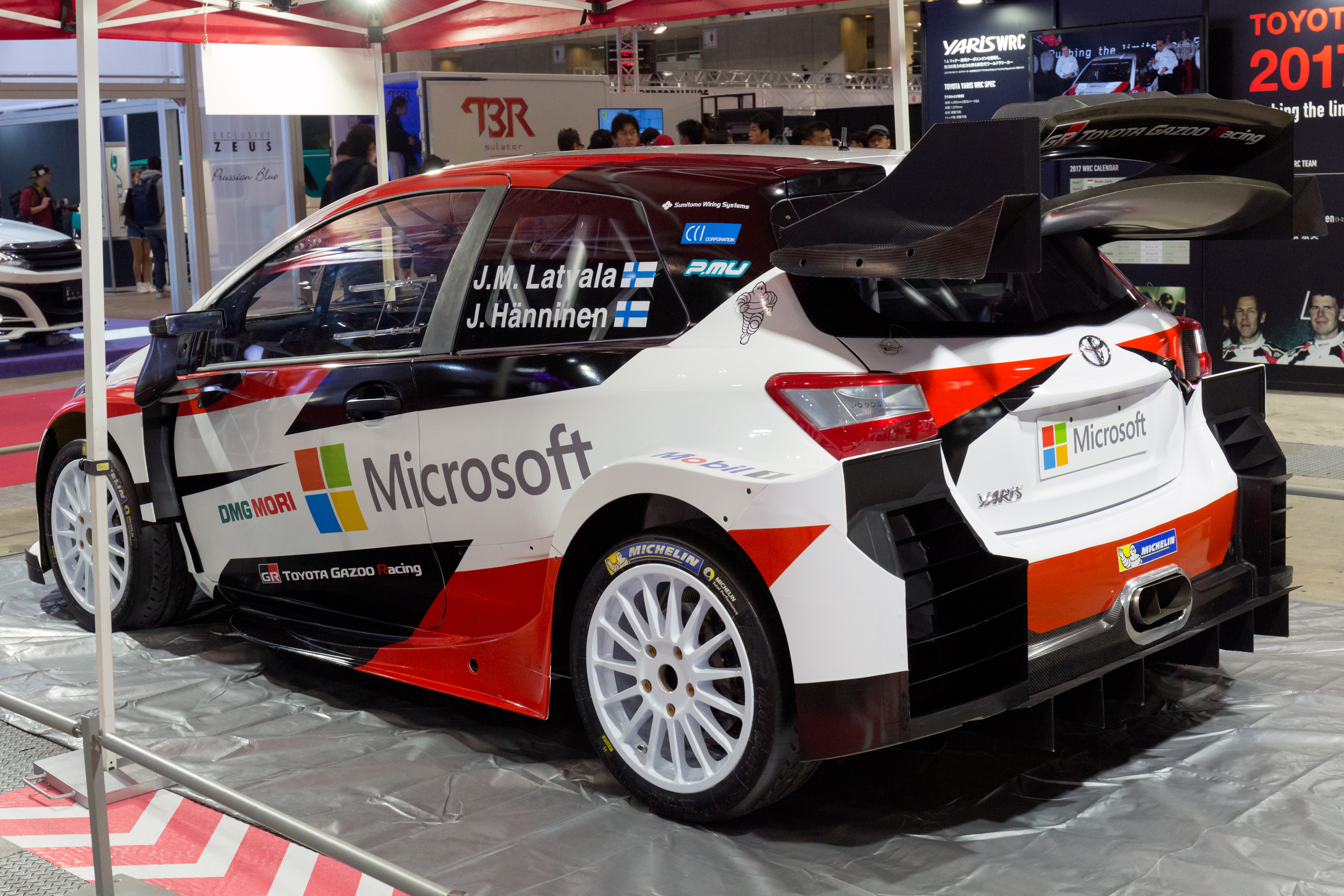 Tokyo Auto Salon 2017: 2017 Toyota Yaris WRC